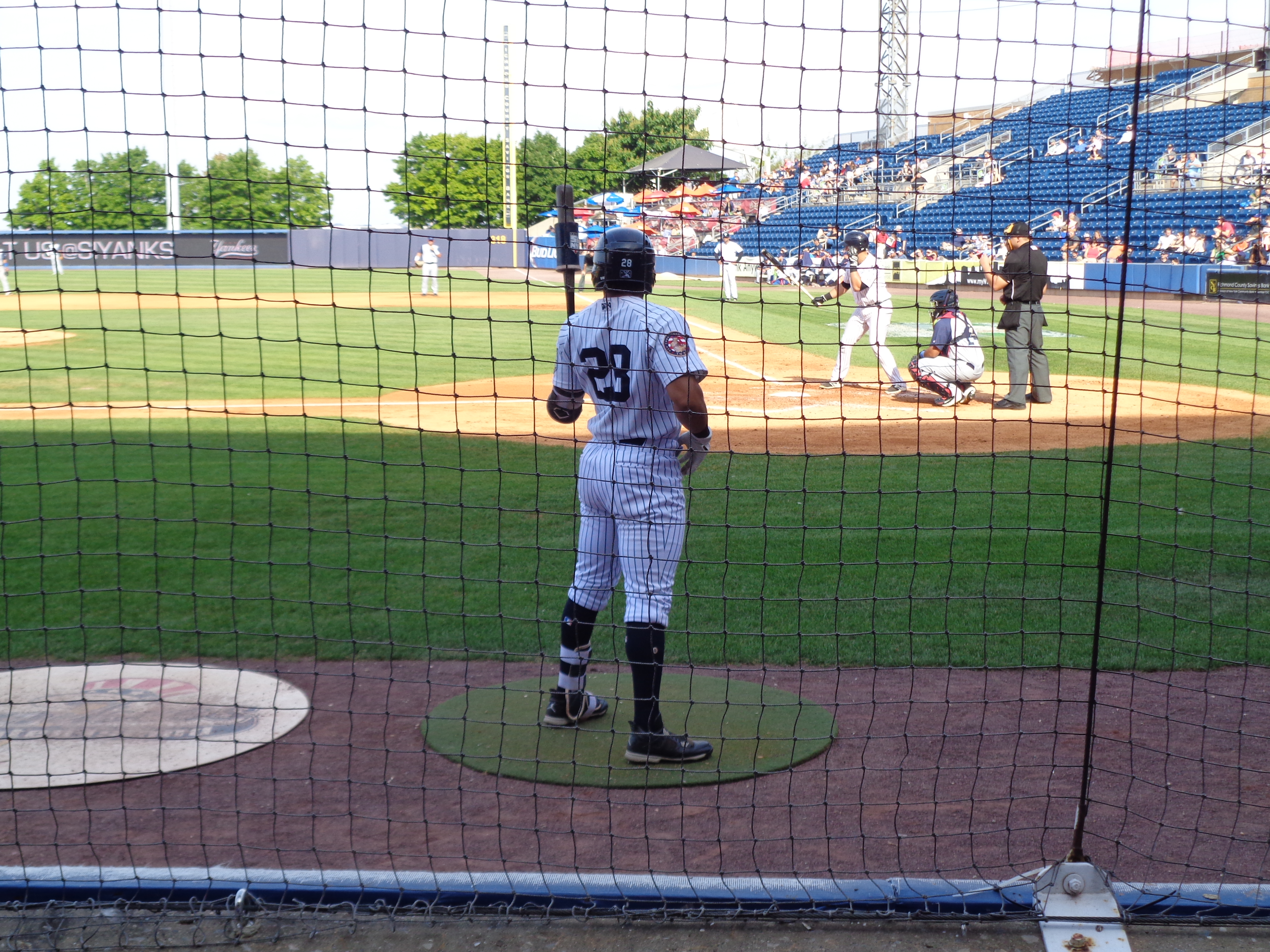 Staten Island Yankees second baseman and DH Timmy Robinson warming up in the on-deck circle during the bottom of the second inning of the SI Yankees vs Brooklyn Cyclones game on August 27, 2017. Yankees catcher Keith Skinner is at bat.